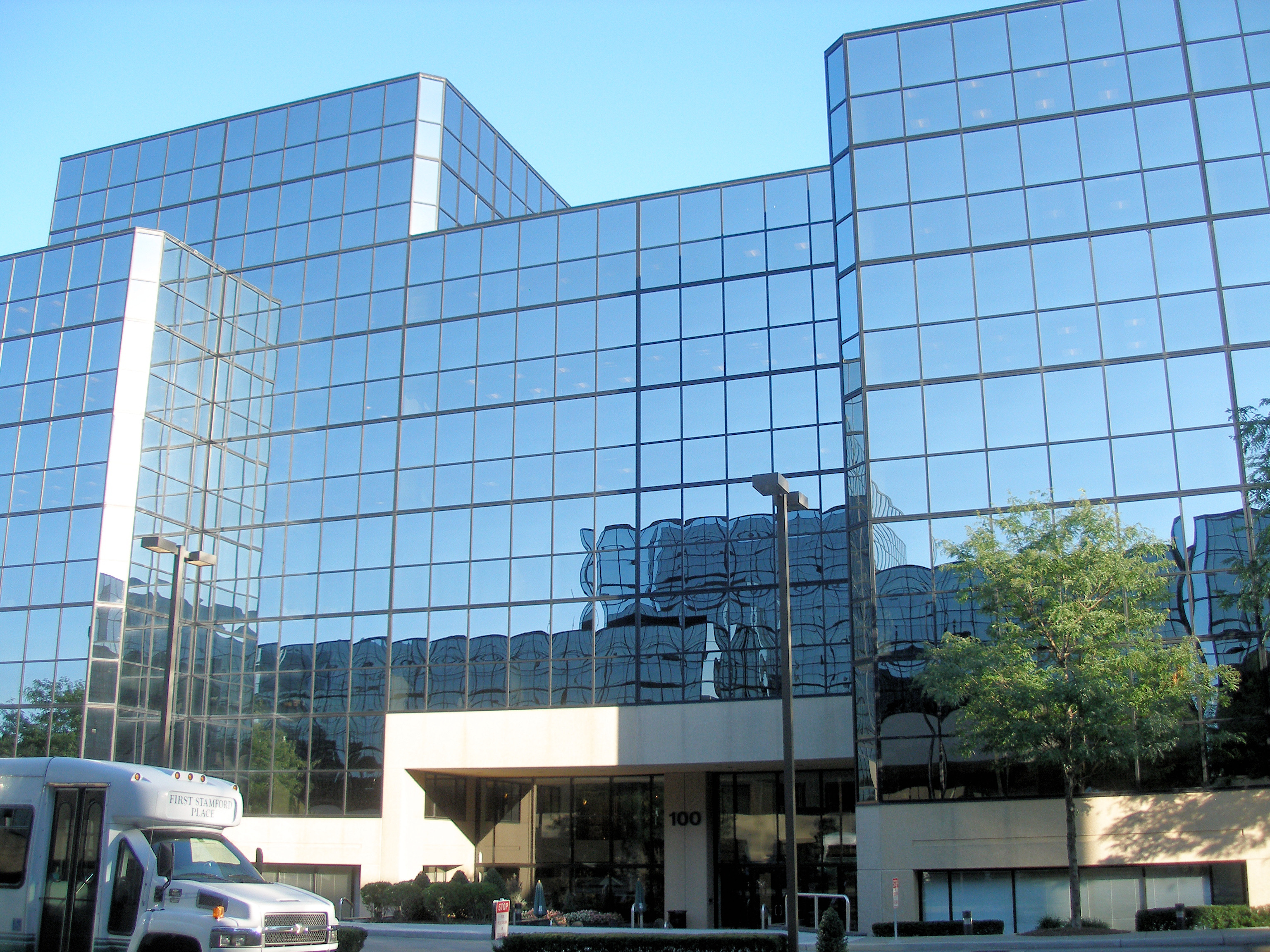 The headquarters of Crane Co. at 100 First Stamford Place in Stamford.